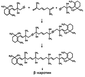 ACD Labs